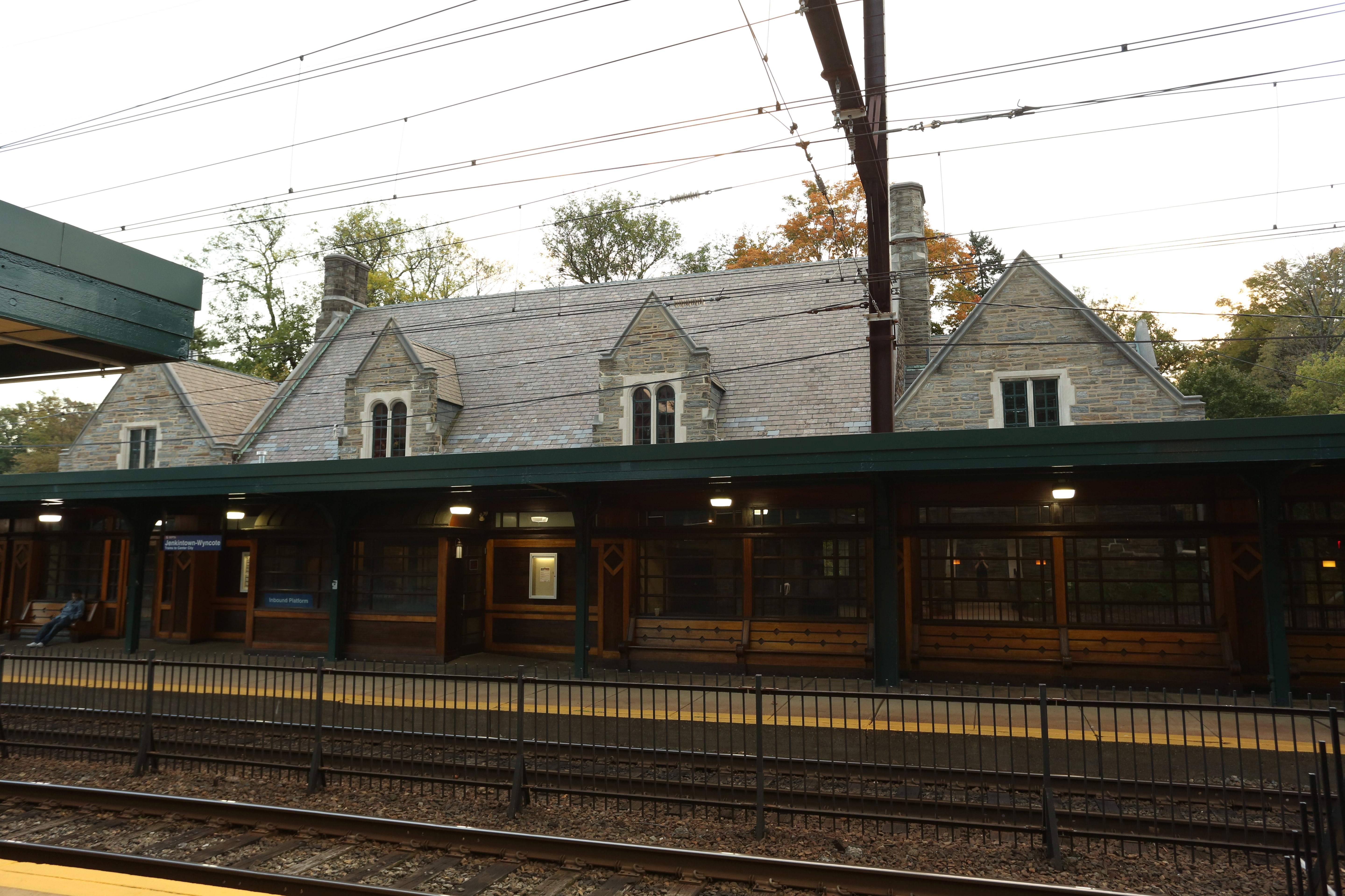 Jtown station